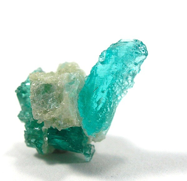 Tourmaline Locality: Paraíba, Northeast Region, Brazil (Locality at ) About 10 years ago a small find of extremely fine, thumbnail size crystals of cuprian elbaite, was uncovered near Paraiba, Brazil. Most went to the cutter before it was realized that the unique color was due to novel inclusion of COPPER in the tourmaline crysatl lattice, making these a new varietal of tourmaline. Fine cut stones have sold for MORE than diamond prices in recent years. This blue green crystal is one of the very few I have personally seen from that find, and one of only a few pieces ever found on matrix. The crystal measures 1.00 cm in length. It is gemmy, and beautiful. The price seems high, sure, but it is NOT your normal tourmaline...this is the ultimate tourmaline rarity that also by chance is the aesthetic thumbnail from hell. 1.4 x 0.9 x 0.7 cm